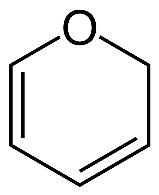 Struktur von 2H-Pyran